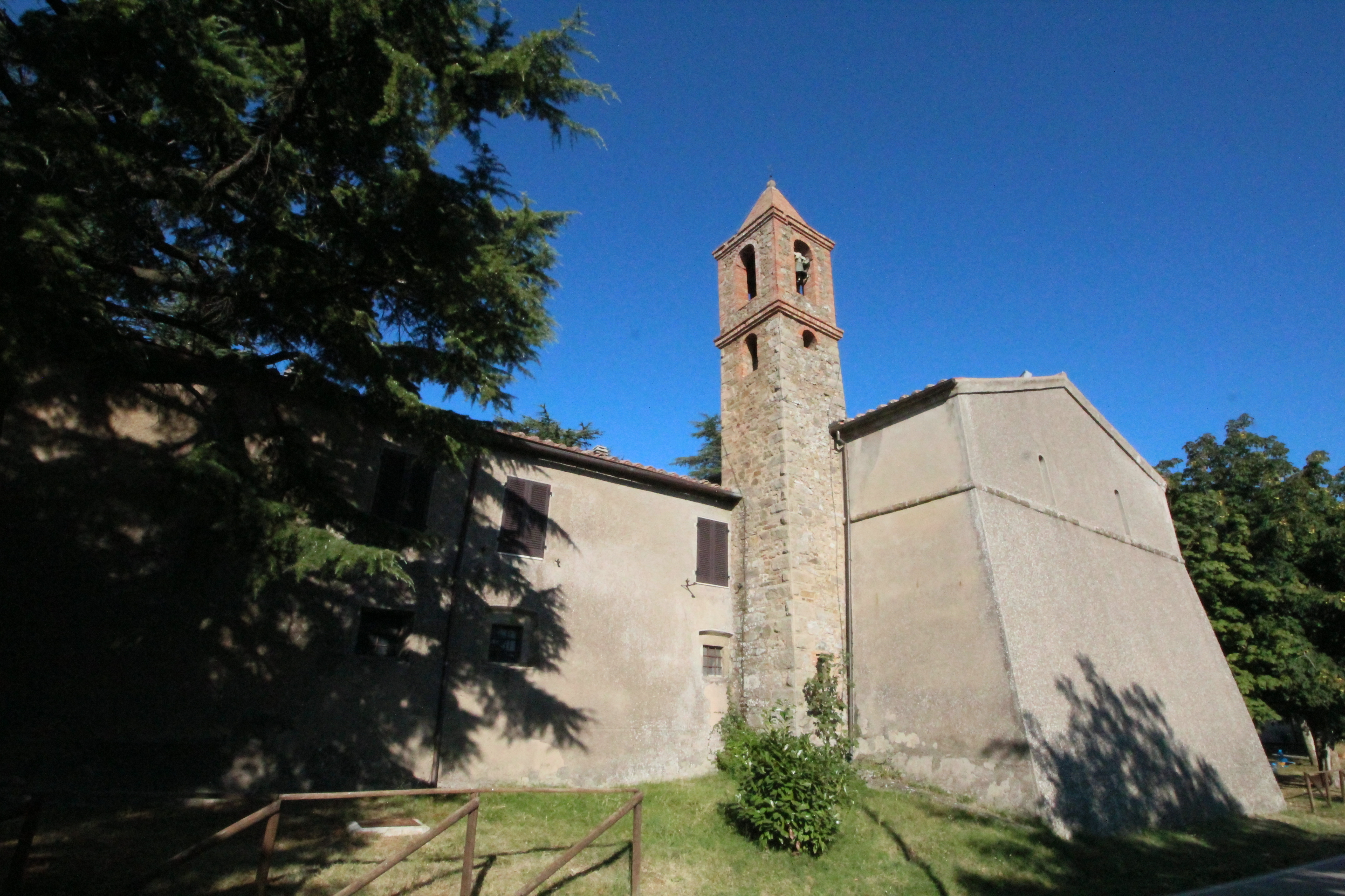 Campanile and Apse of the Church of San Lorenzo Martire, Pescina, hamlet of Seggiano, Province of Grosseto, Tuscany, Italy